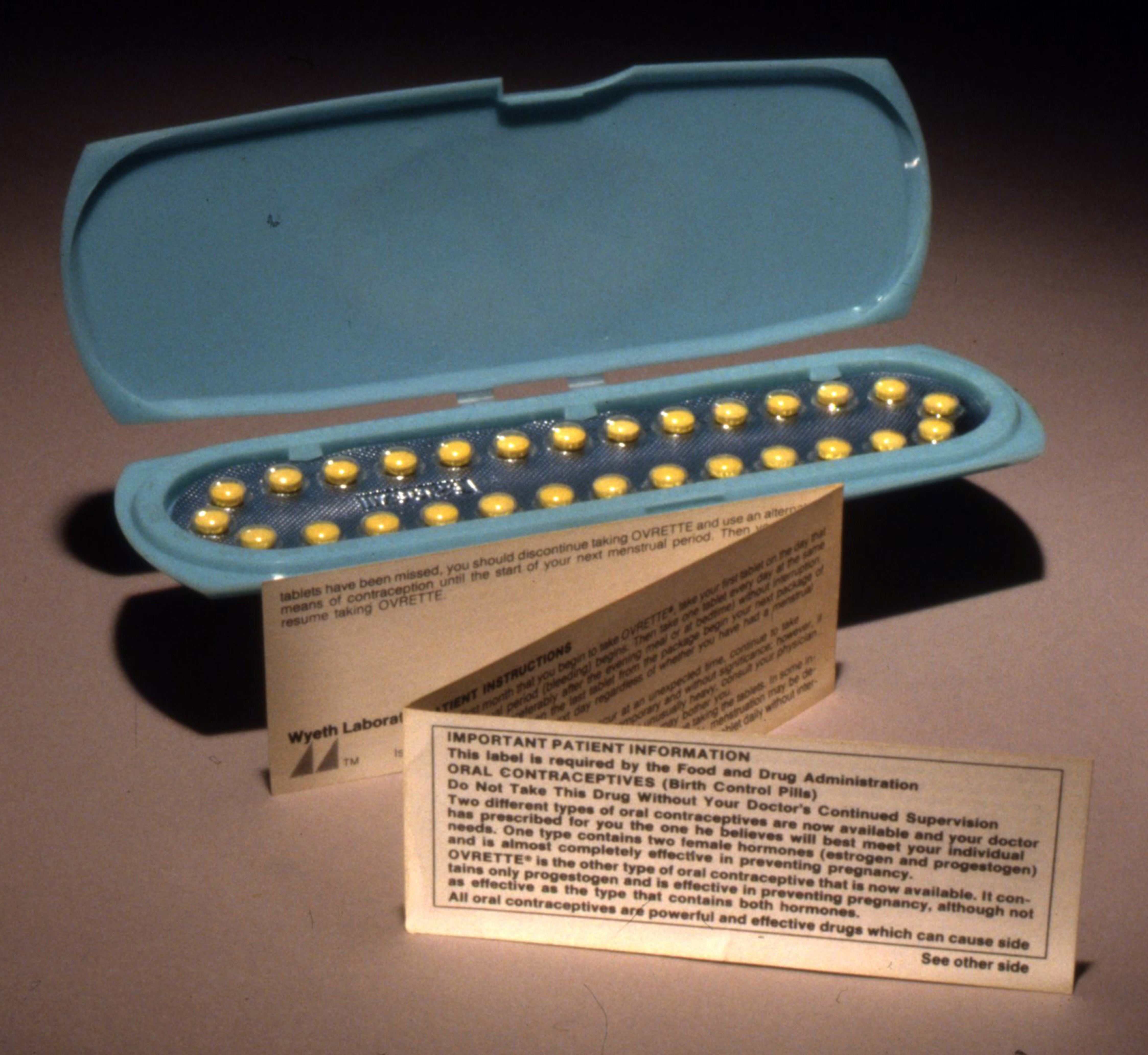 Despite opposition from organized medicine and industry, FDA mandated a patient package insert for oral contraceptives in June 1970 based on a concern that patients were not uniformly provided information for their safe and effective use. For more information on FDA History, please visit